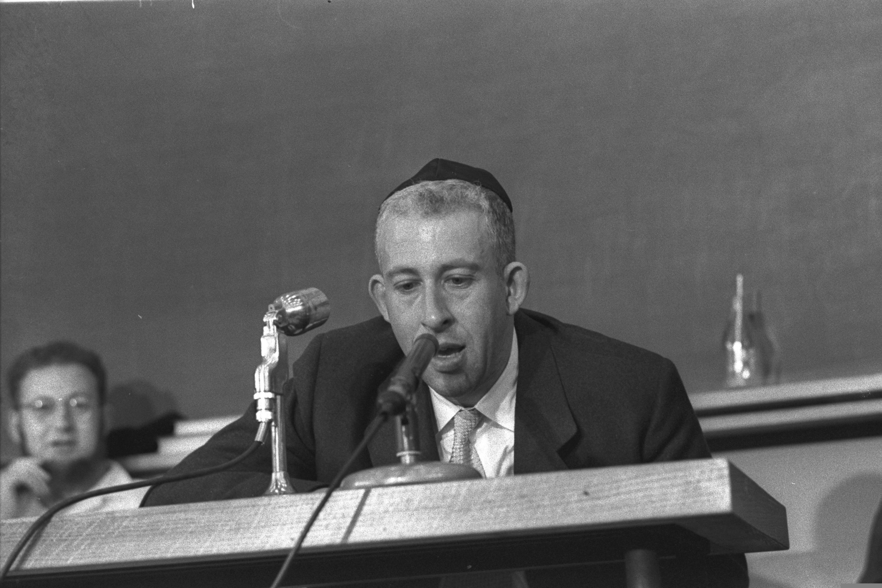 Mr. Amos Hacham, world bible quiz champion 1958.